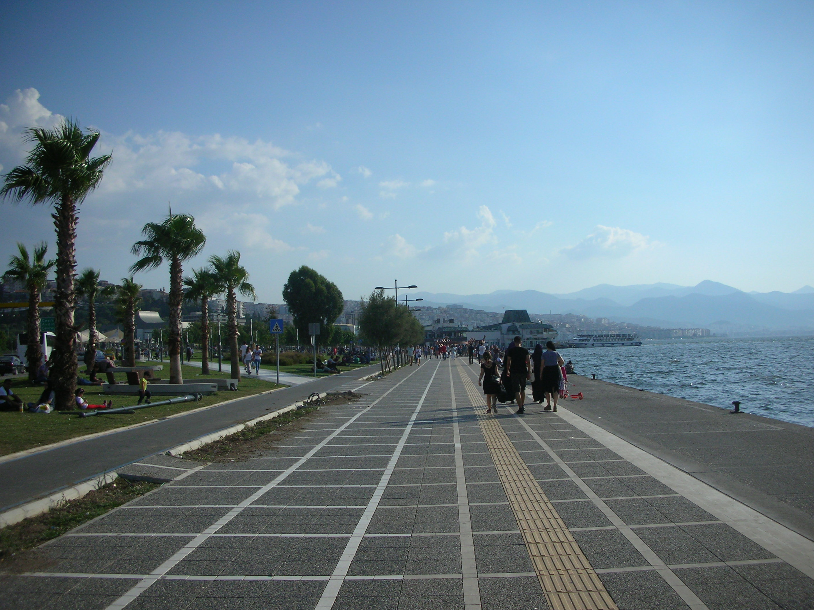 A view of Konak shore on 16th August, 2015.